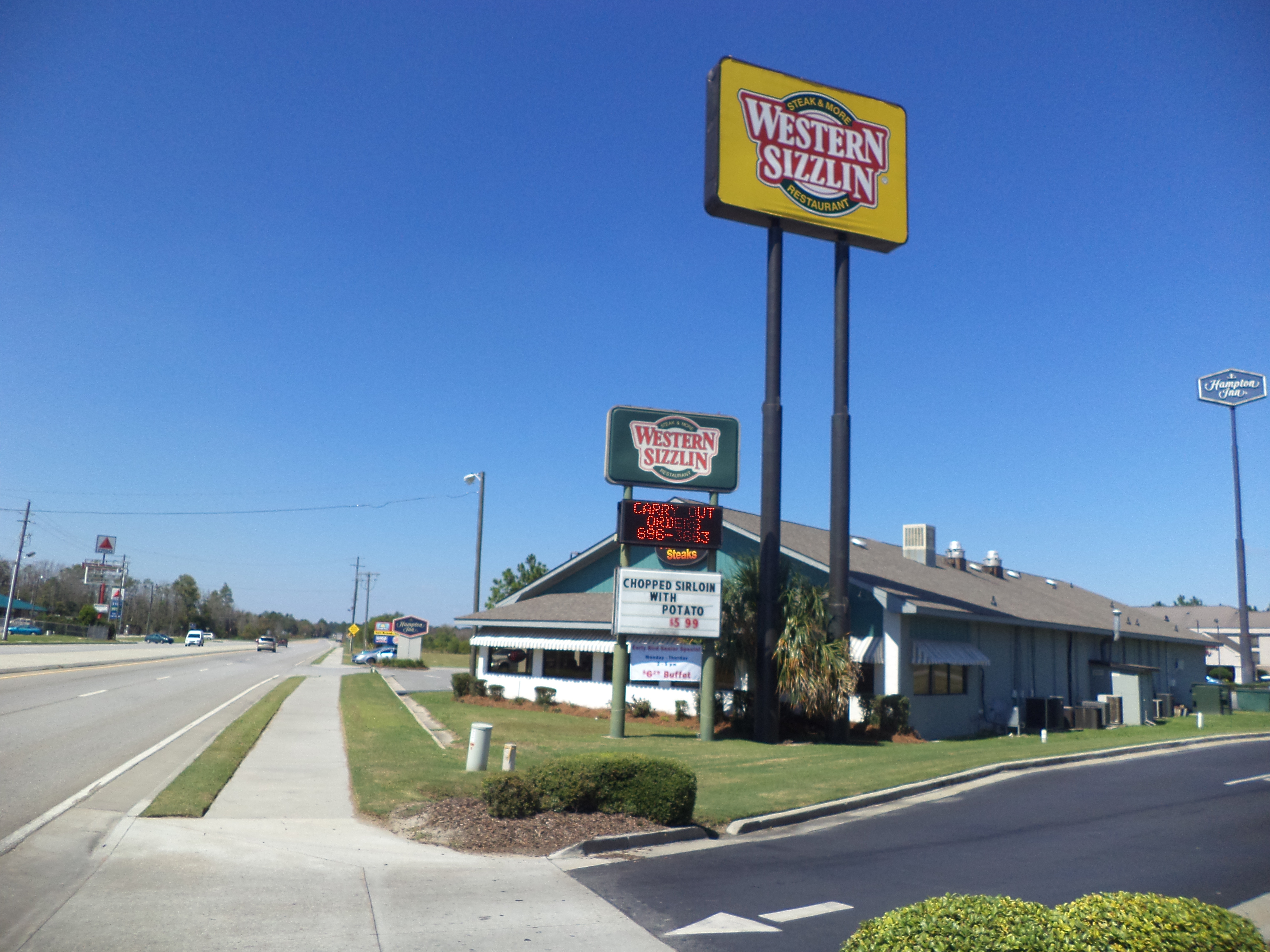 Western Sizzlin, Adel, Cook County, Georgia